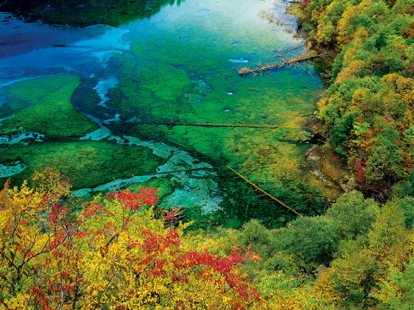 one of the lakes in Jiuzhaigou Valley, Sichuan, China